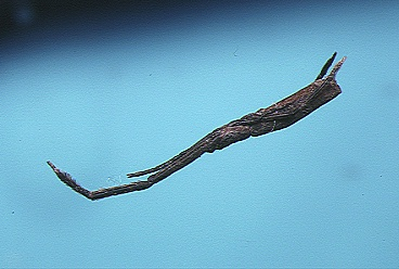 Female Miagrammopes orientalis from Okinawa (Japan).